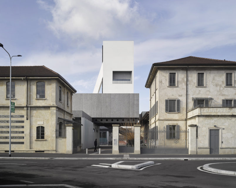 Fondazione PRADA, Milano, Via Ripamonti - Largo Isarco area